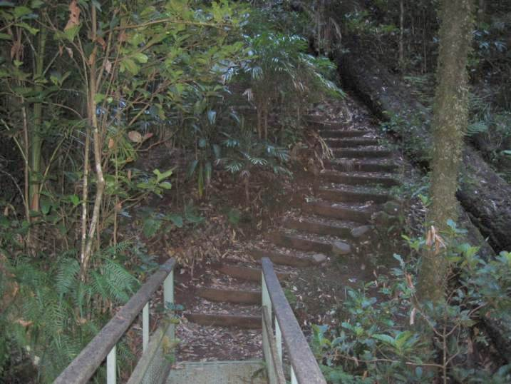 Trail through Richmond Range National Park. Photo taken by myself.